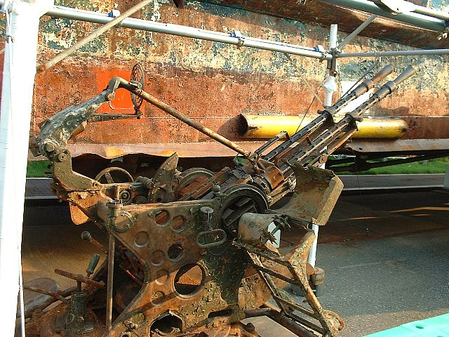 ZPU-2 14.5mm anti-aircraft gun found on the North Korean spy trawler sunk by the Japanese Coast Guard in 2001.